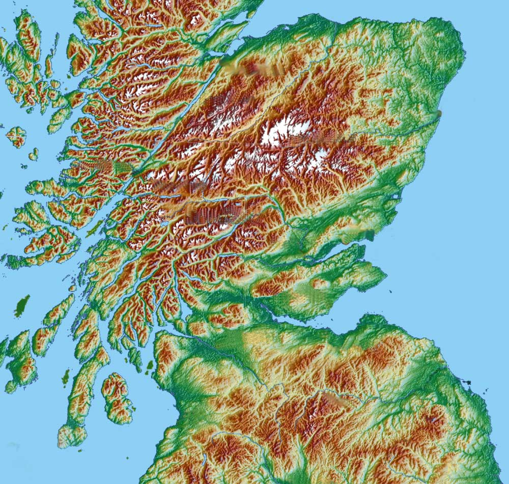 Central Scotland (topographic)